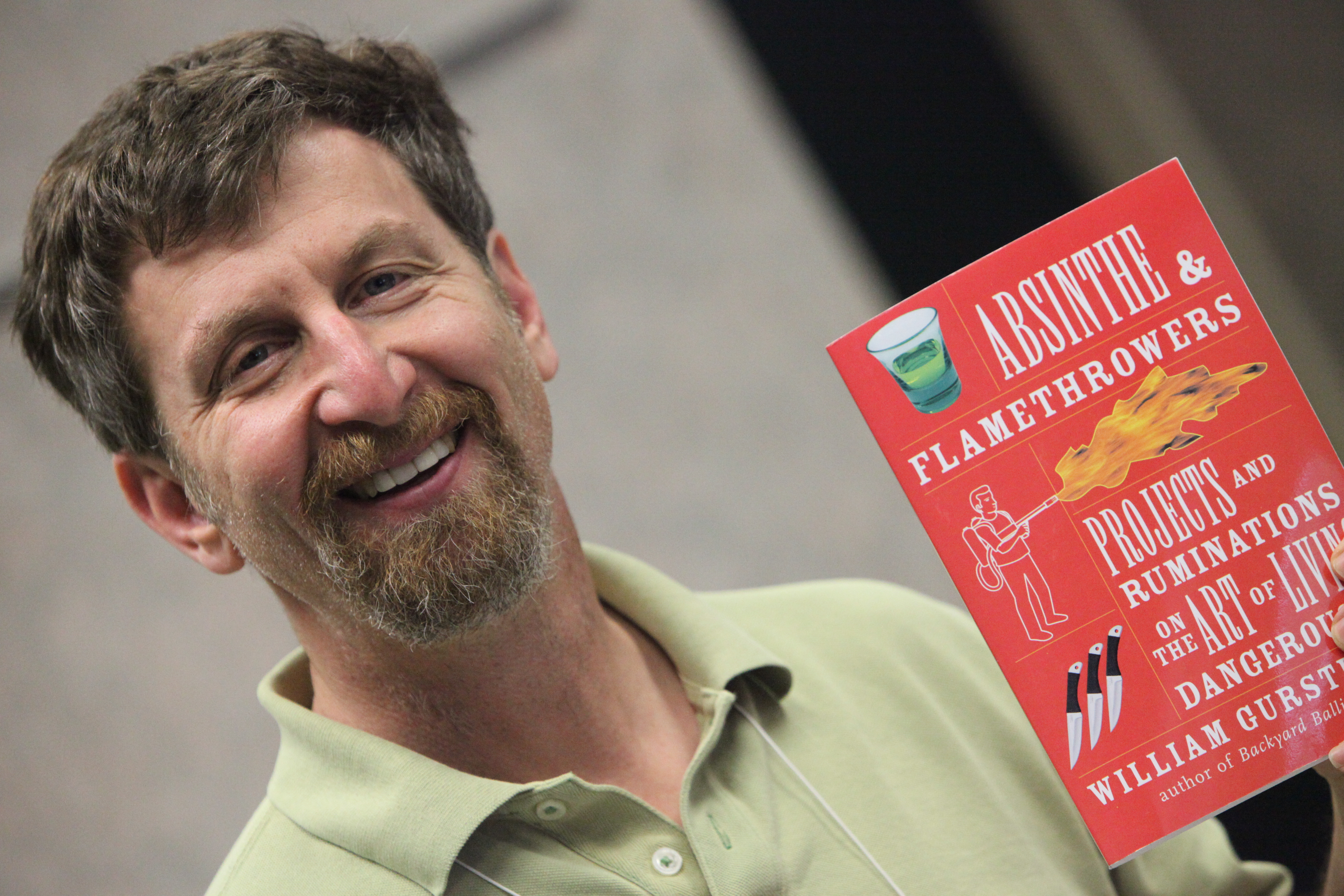 William Gurstelle, American nonfiction author, at Kinnernet in Israel on May 9, 2009